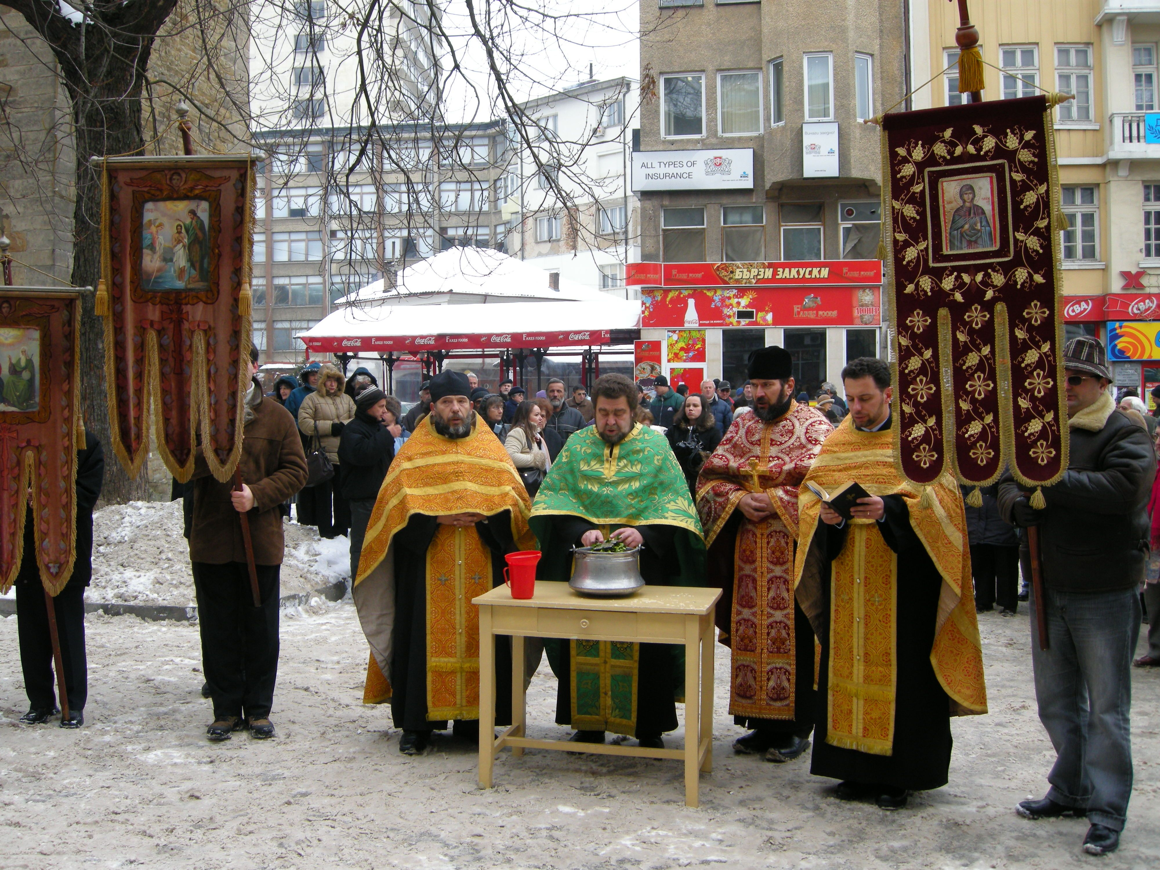 Orthodox Great Blessing of Waters at Theophany in the center of the town of Gabrovo, Bulgaria.